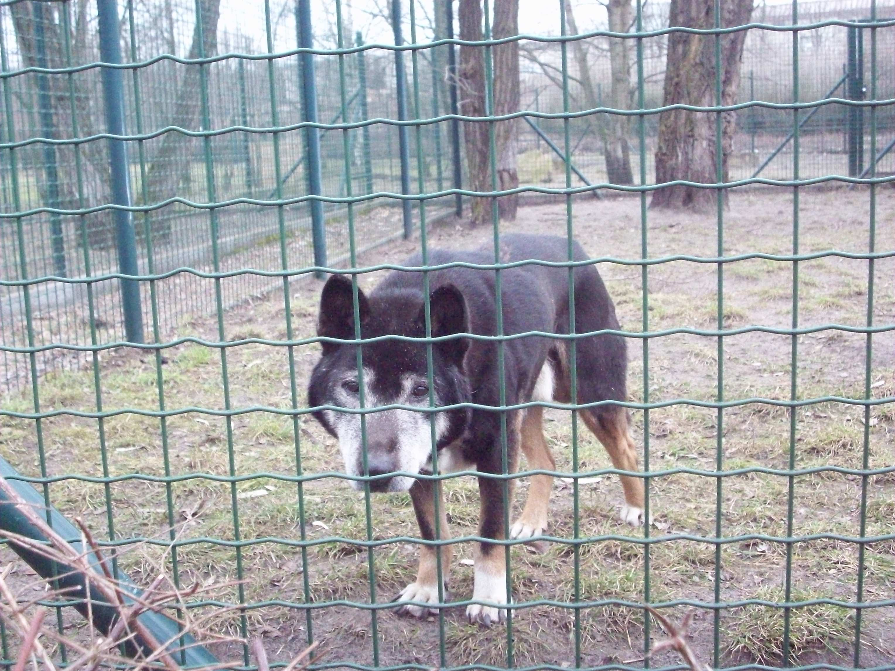 A male New Guinea Singing dog from Tierpark Berlin.